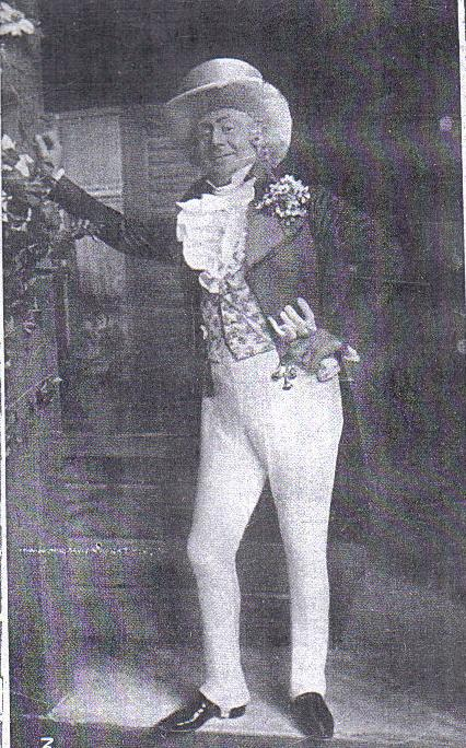 Scan by uploader from The Sketch, 6 October 1909, p. 397. It shows C. H. Workman as Pierre in The Mountaineers.